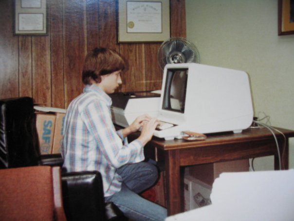 Using a Plato IST-II terminal, circa 1978-1980